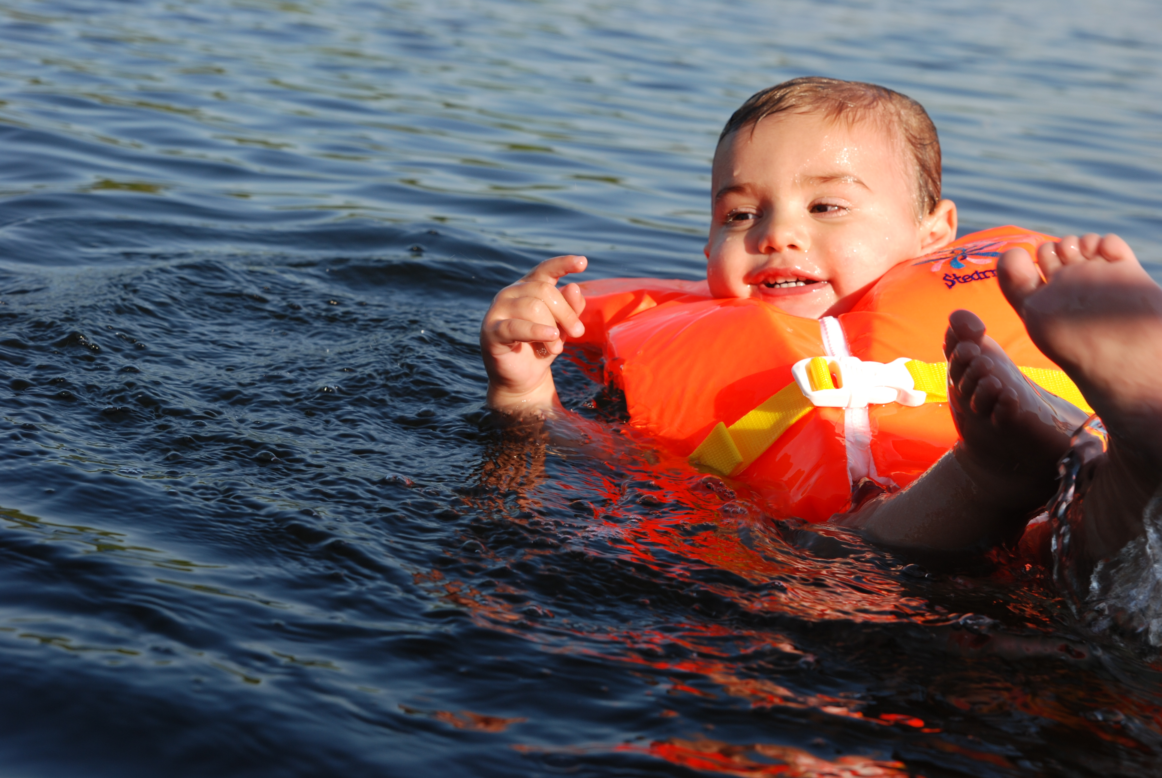 Child's life vest.